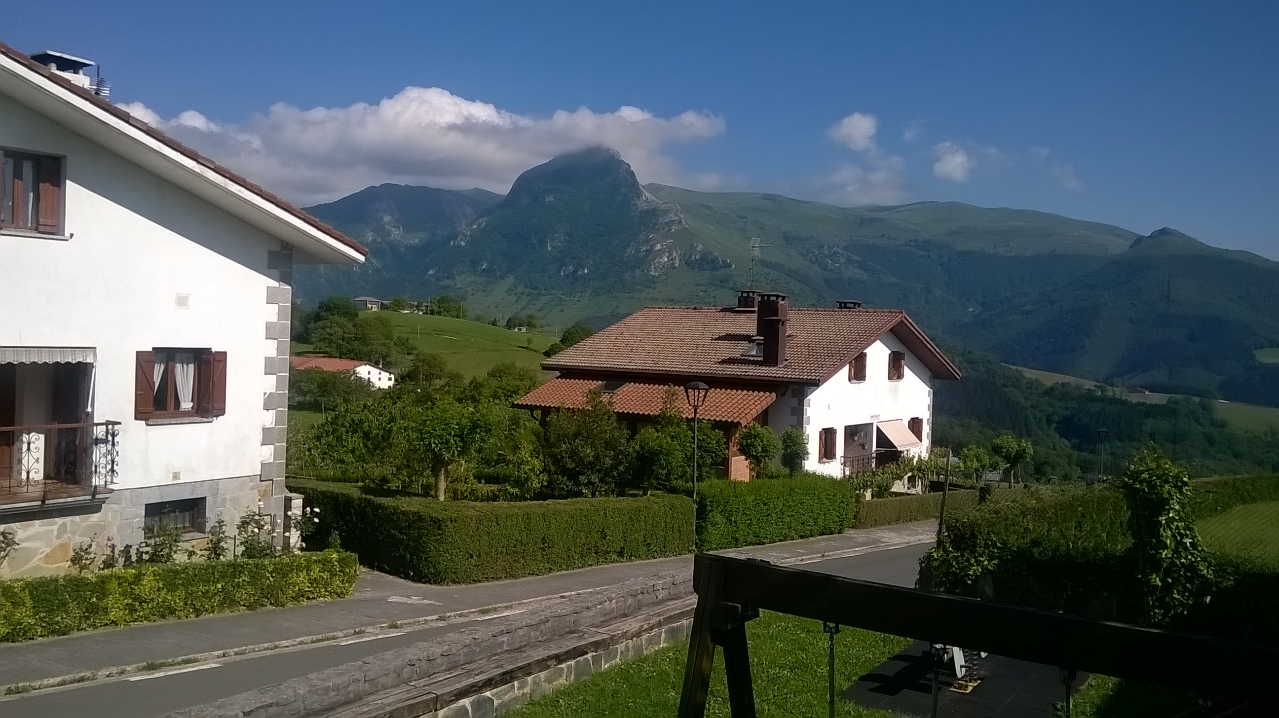 Gaintza, Gipuzkoa, Basque Country